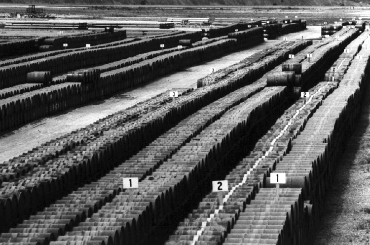 Herbicides removed from Vietnam stored at Gulfport, Mississippi (USA). The last "Ranch Hand" defoiliation mission had been flown in Vietnam on 7 January 1971.